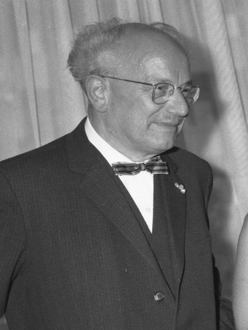 Dutch publisher Hendricus Prakke in 1961